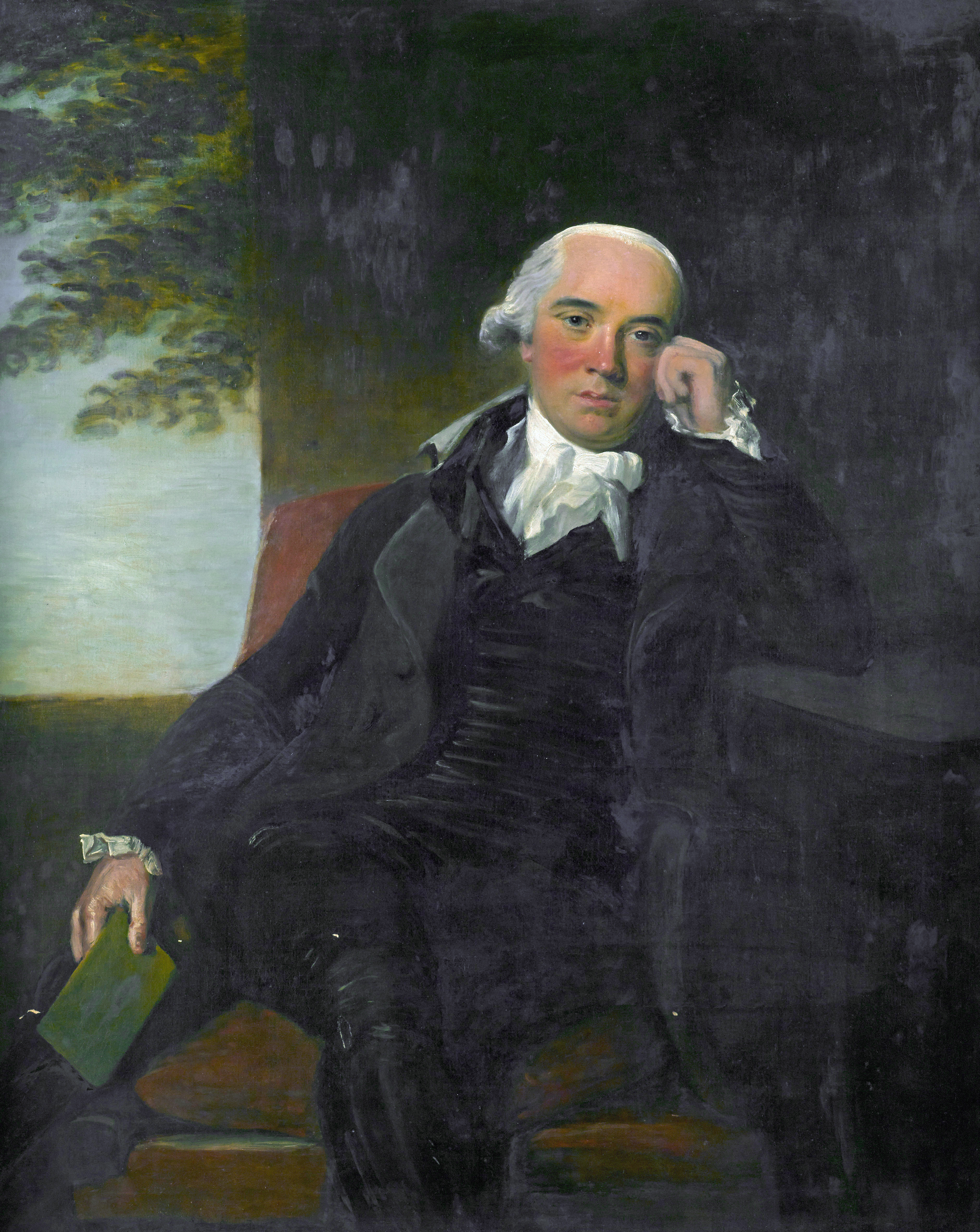 William Creech (1745-1815), a Scottish publisher and bookseller oil on canvas 127 x 101.5 cm